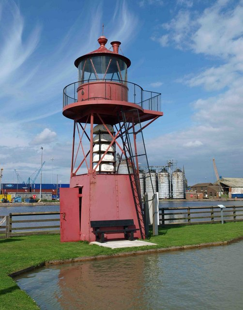 Lighthouse in Goole Docks, Goole, East Riding of Yorkshire, England.Originally situated at Trent Falls where the Rivers Trent and Ouse met. The lighthouse is near the last remaining boat hoist and is used by Goole Model Boat Club, whose sailing pond is in the foreground. The lighthouse can be seen in situ thanks to Dr Neil Clifton's archive photo 374704